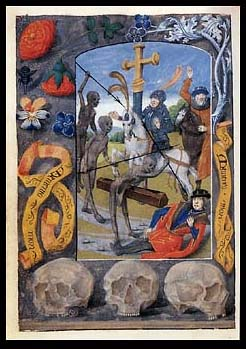 Representation of the legend of the three living and the three dead